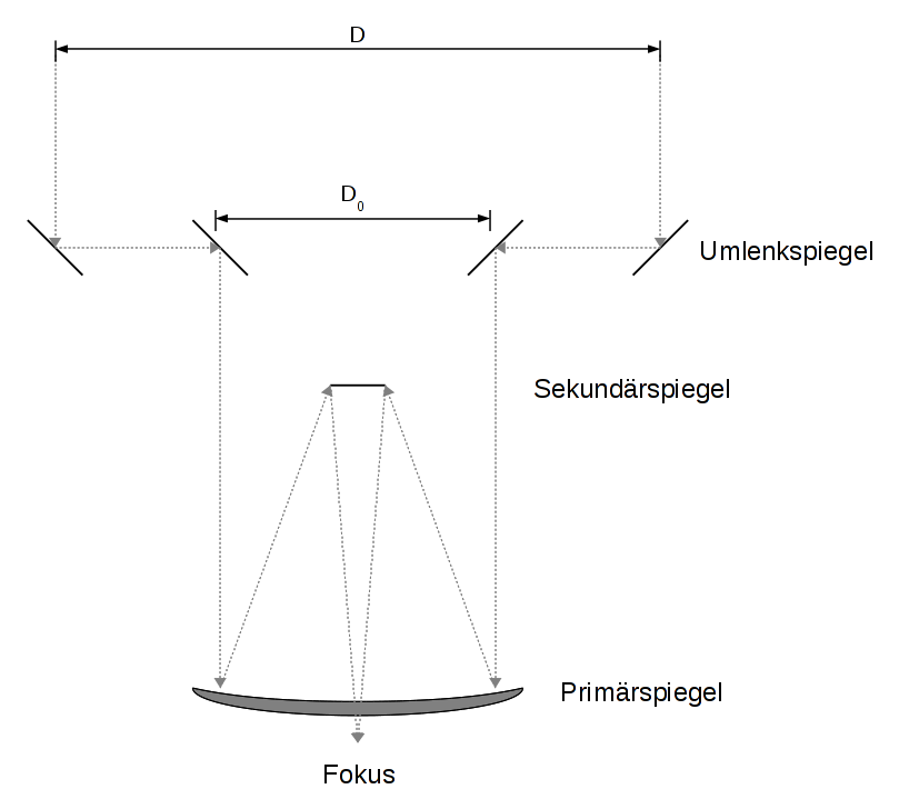 Schematic diagramm of a Michelson stellar interferometer